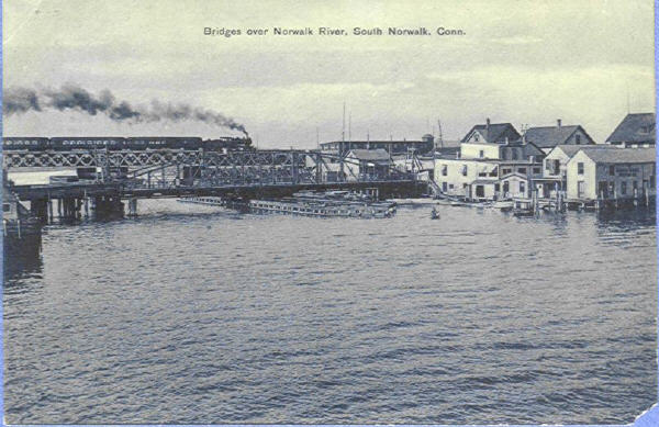 Railroad bridge and other bridge over the Norwalk River in Norwalk, Connecticut Description: "Bridges Over Norwalk River, South Norwalk, Connecticut Postcard, Pub by Hafner's East Side News & Confectionery Store, East Norwalk, Conn And The American News Co, New York, [...] Postally Used - PM South Norwalk, Conn Jan 21, 1914, One Cent Stamp Intact".